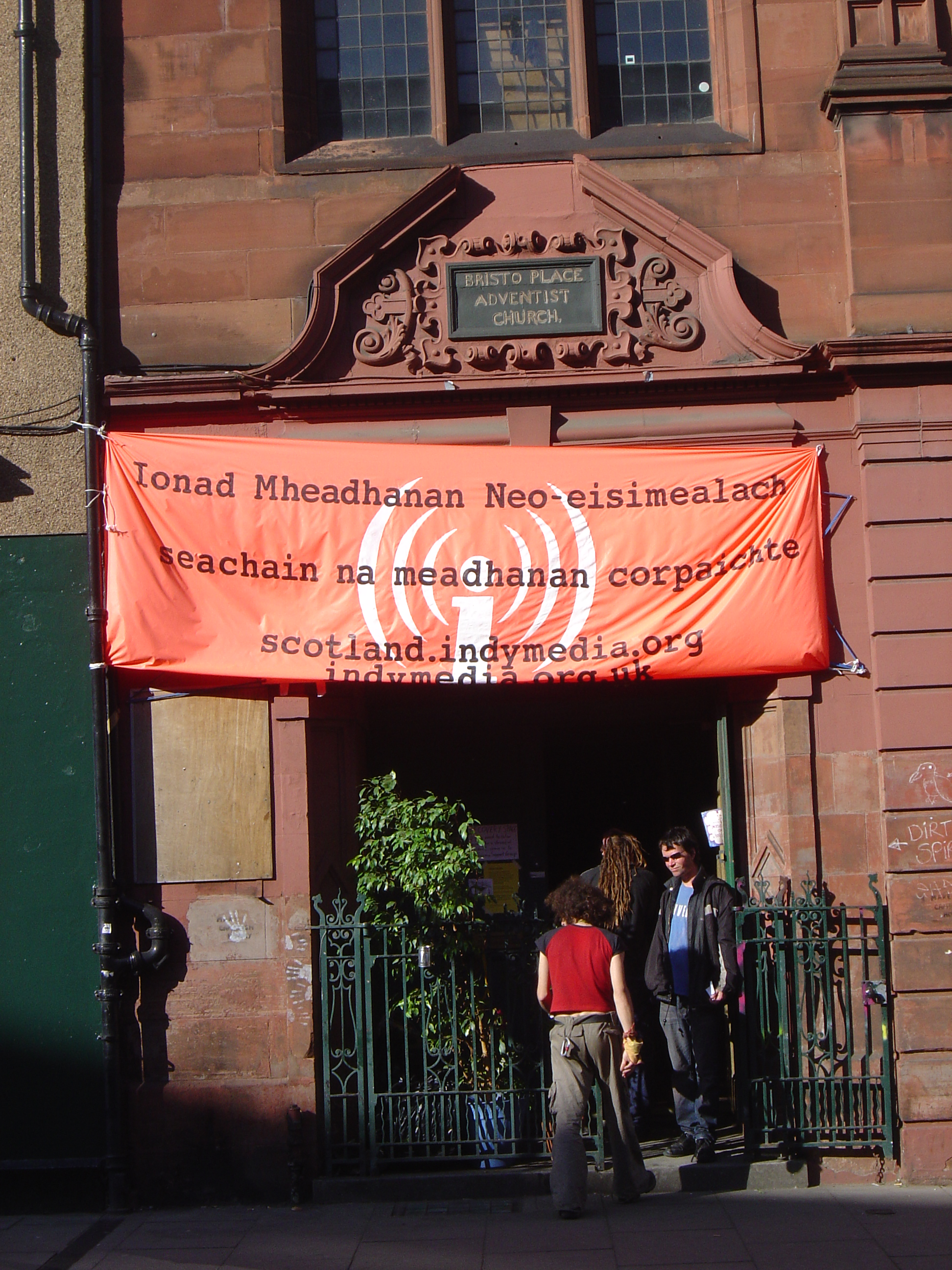 Indymedia Edinburgh site 2005/07/07